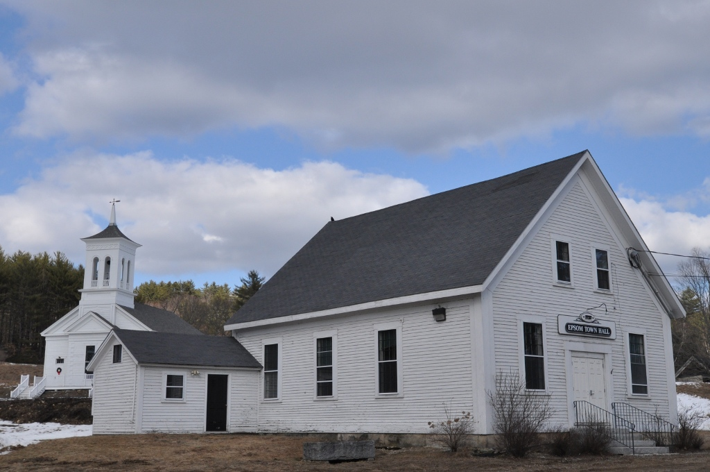 The town hall of Epsom, NH